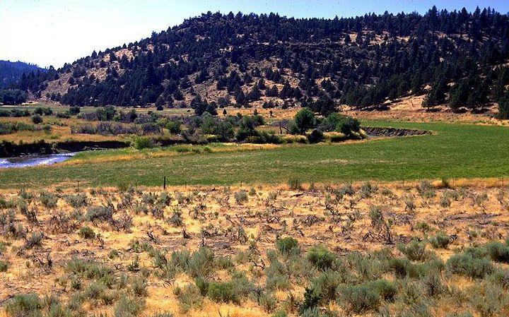 Pit River Valley, near Canby, Modoc County, California.